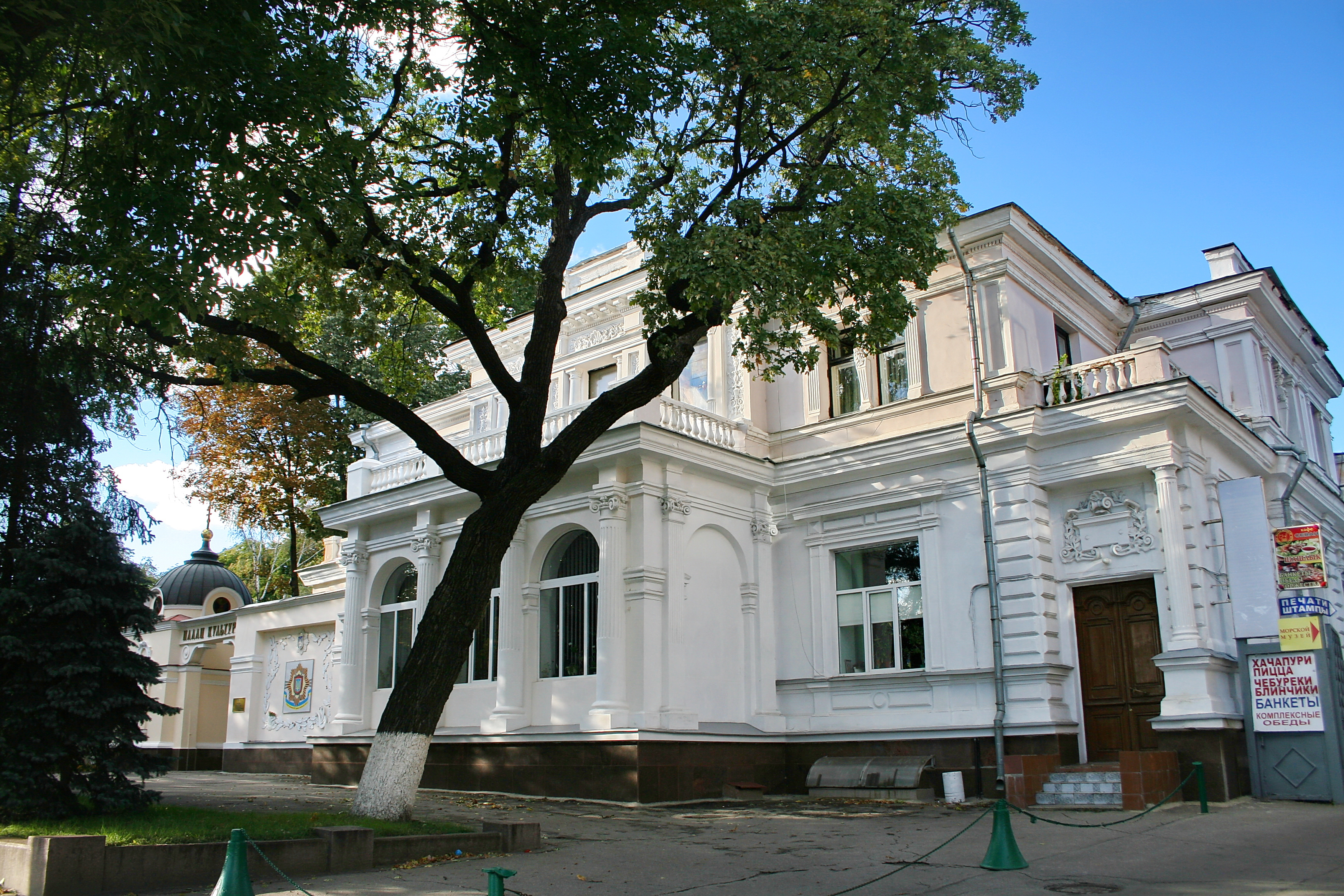 Alchevsky family mansion. Later the club of security officers (KGB). Now the Palace of Culture of police.